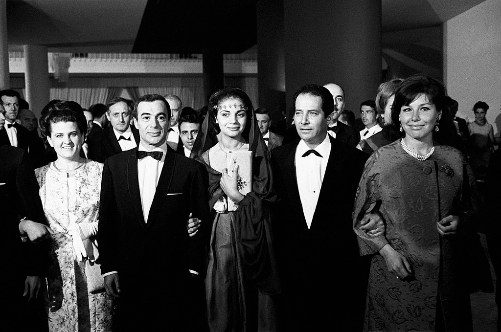 Italian director, scenarist and actor Gillo Pontecorvo (Gilberto Pontecorvo), his wife Picci and Algerian politician Saadi Yacef posing beside some guests at 27th Venice International Film Festival. Gillo Pontecorvo won the Golden Lion for the film The Battle of Algiers. Venice, 1966.